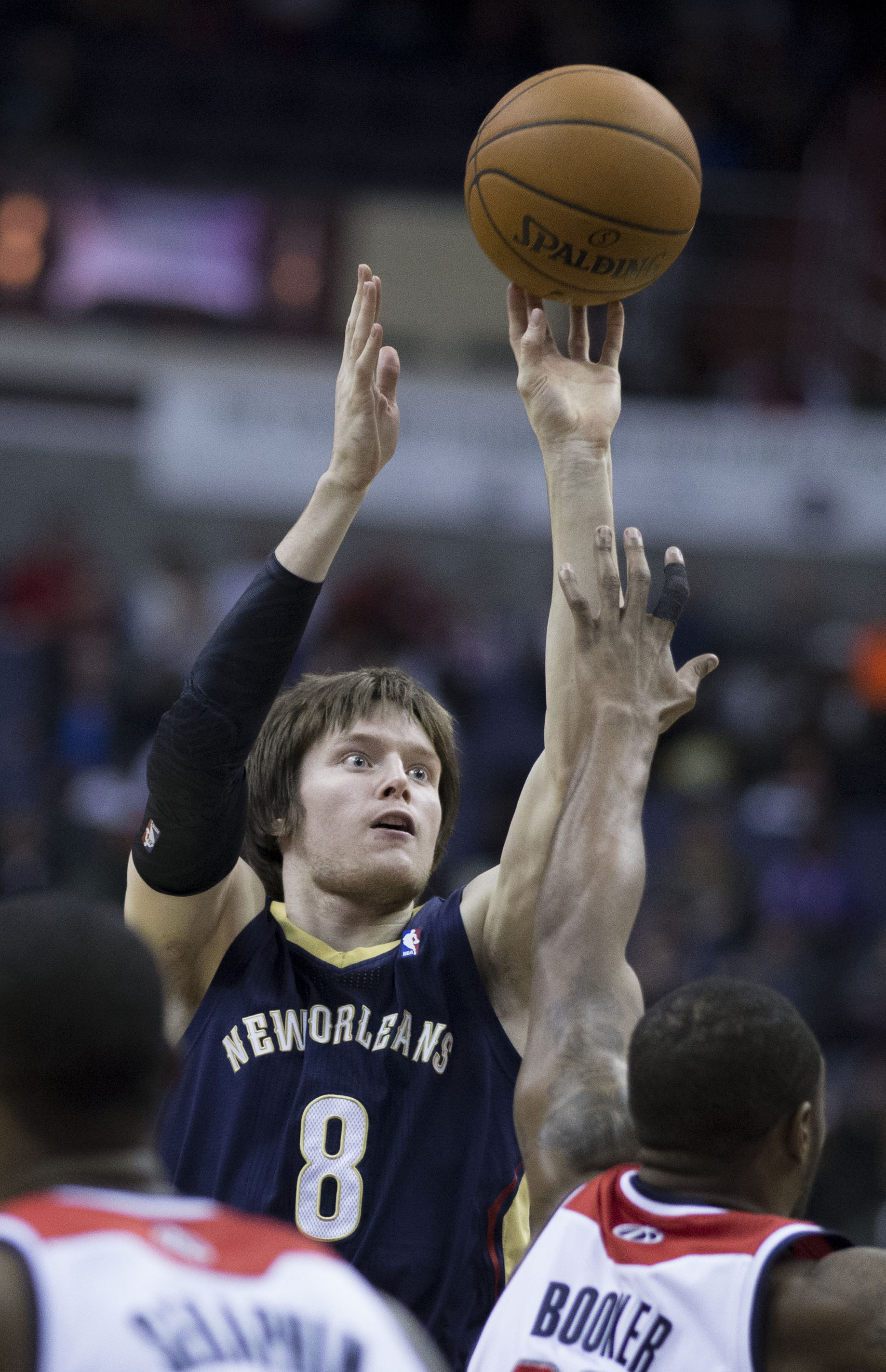 Pelicans at Wizards 2/22/14